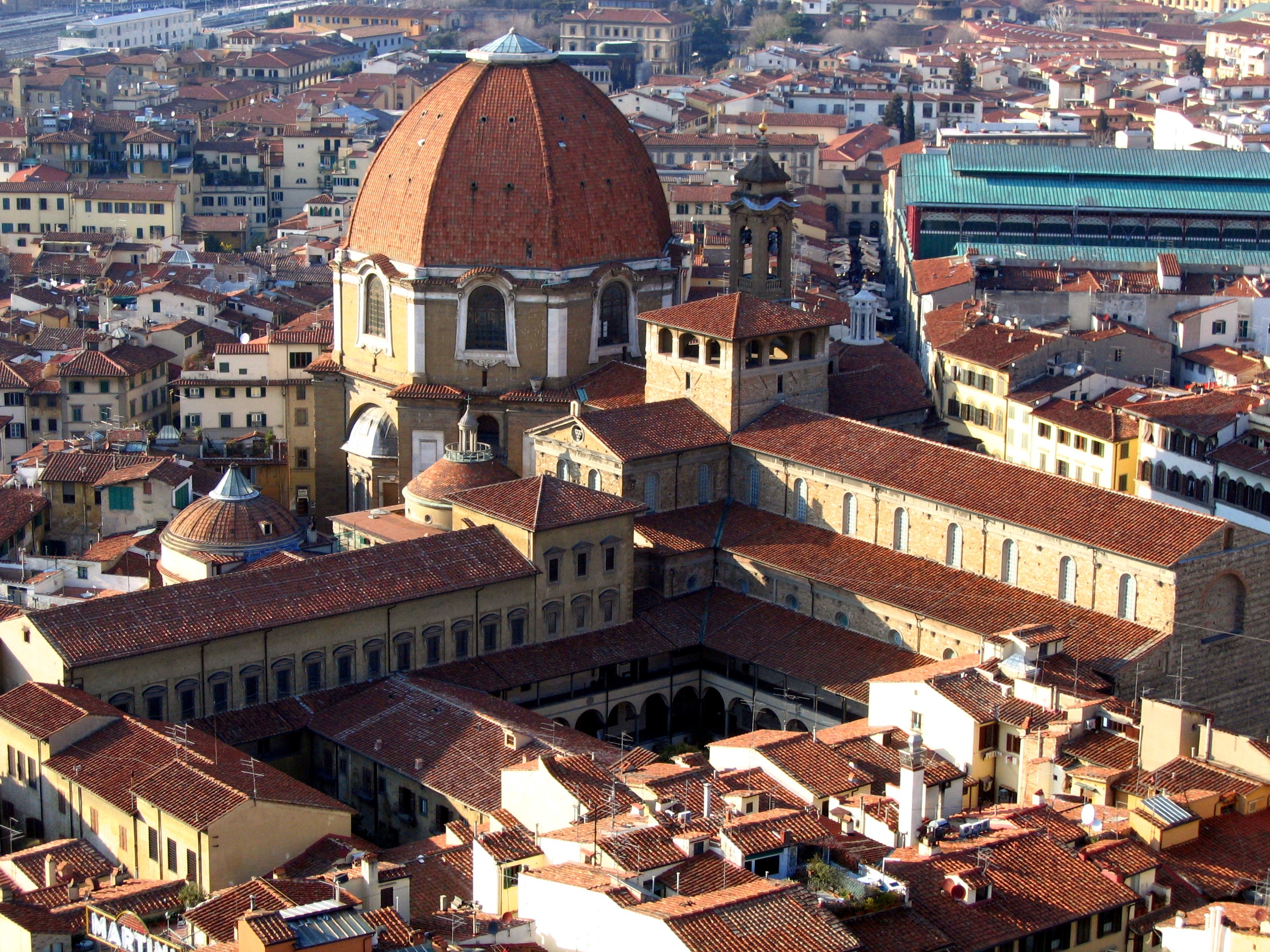 Biblioteca Medicea Laurenziana, seen from the Campanile Time, Place: April 2005 Florence License: Picture by myself, PD